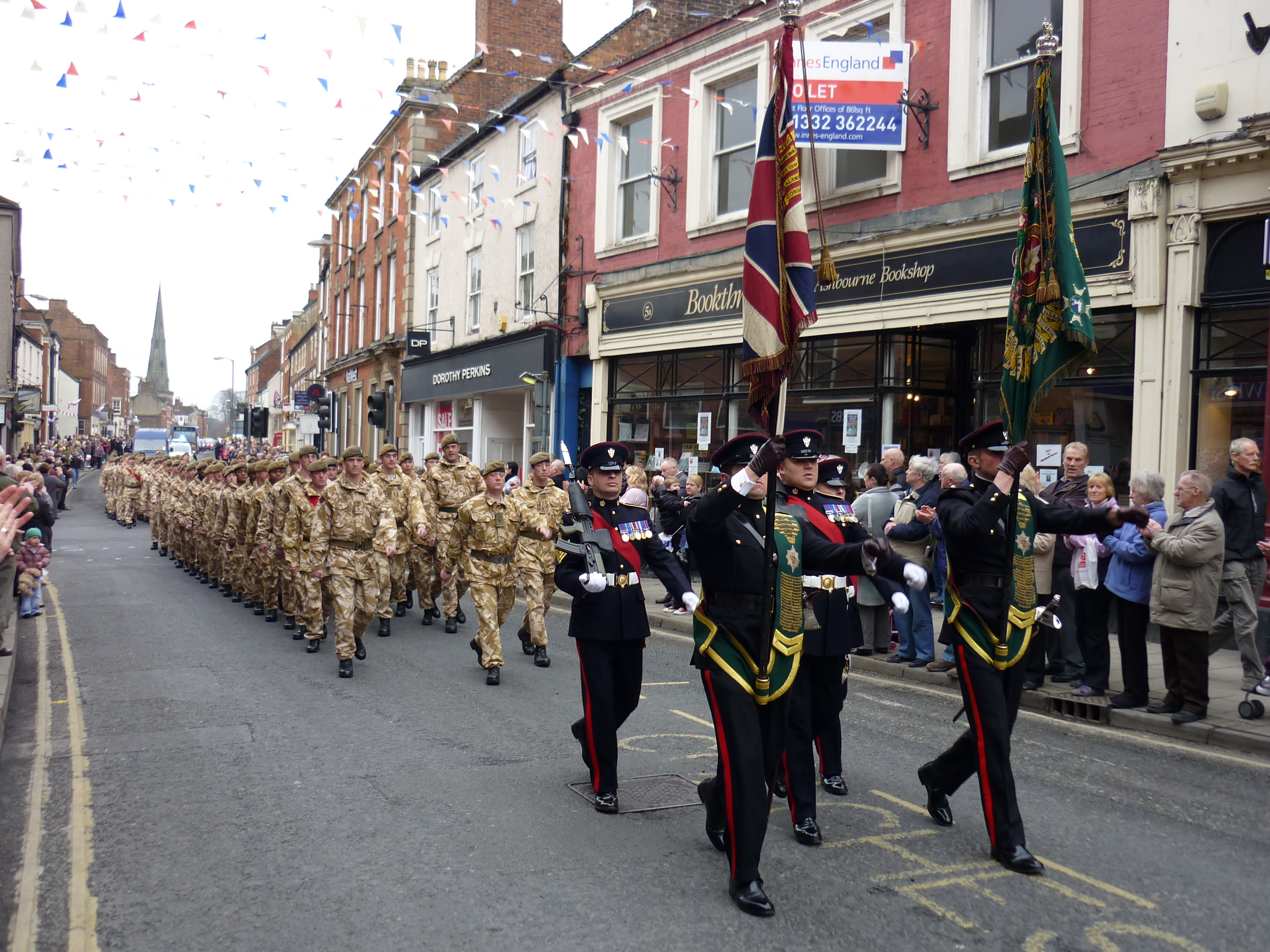 Church Street Ashbourne Members of the Mercian Regiment march through town after a service at St Oswald's Church much to the delight of the residents of Ashbourne - March 18th 2010